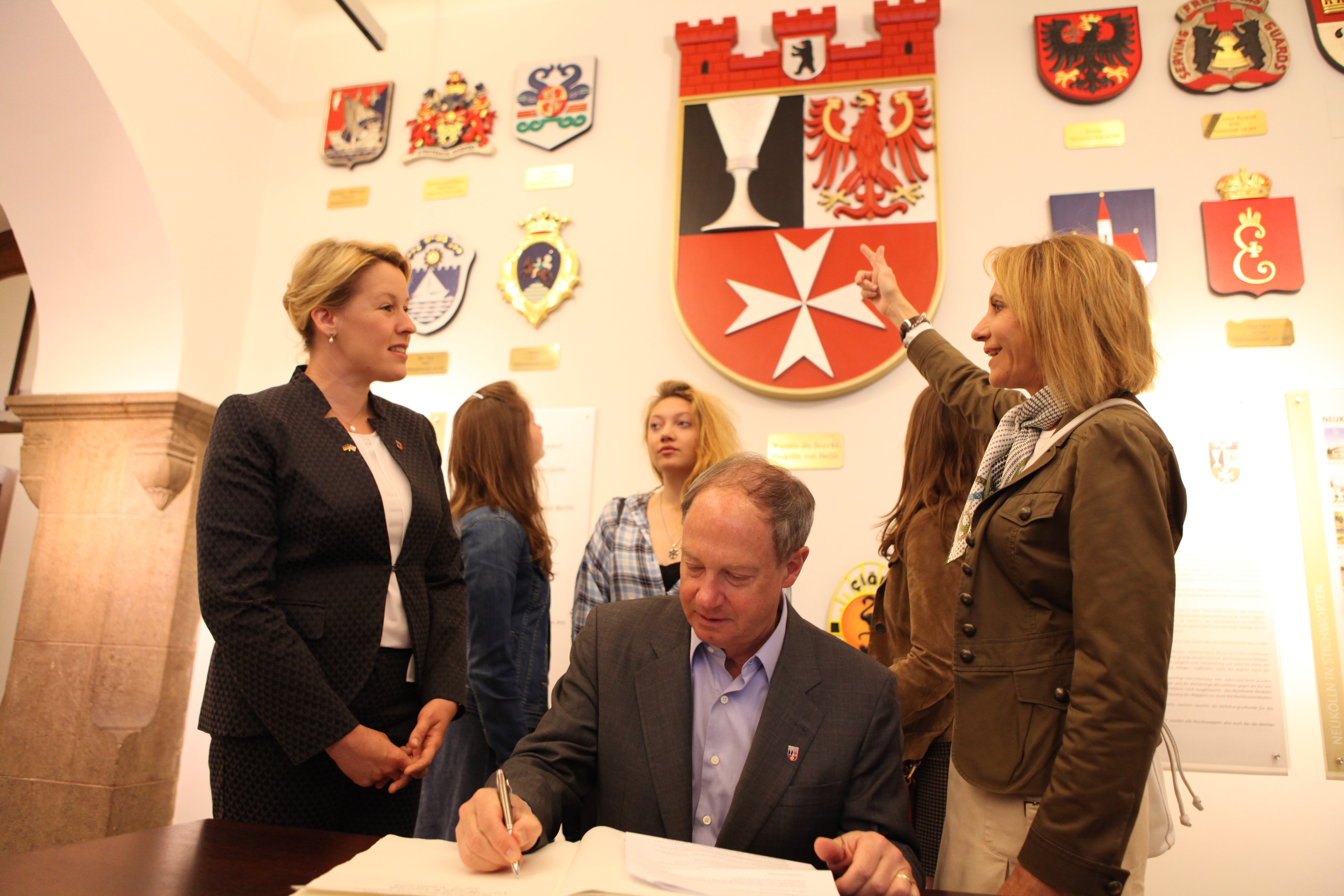 Bezirksamt Neukölln – Meeting with Dr. Giffey, District Mayor.